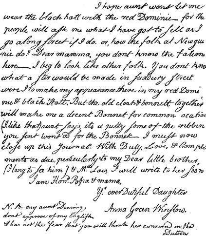 a photo of an entry in Anna Green Winslow's diary